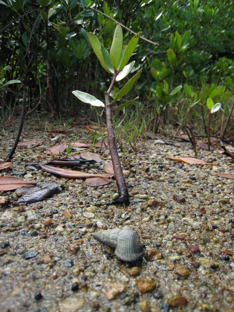 Photo of Terebralia sulcata in situ in its mangrove habitat. Locality: Tai Po, Hong Kong.